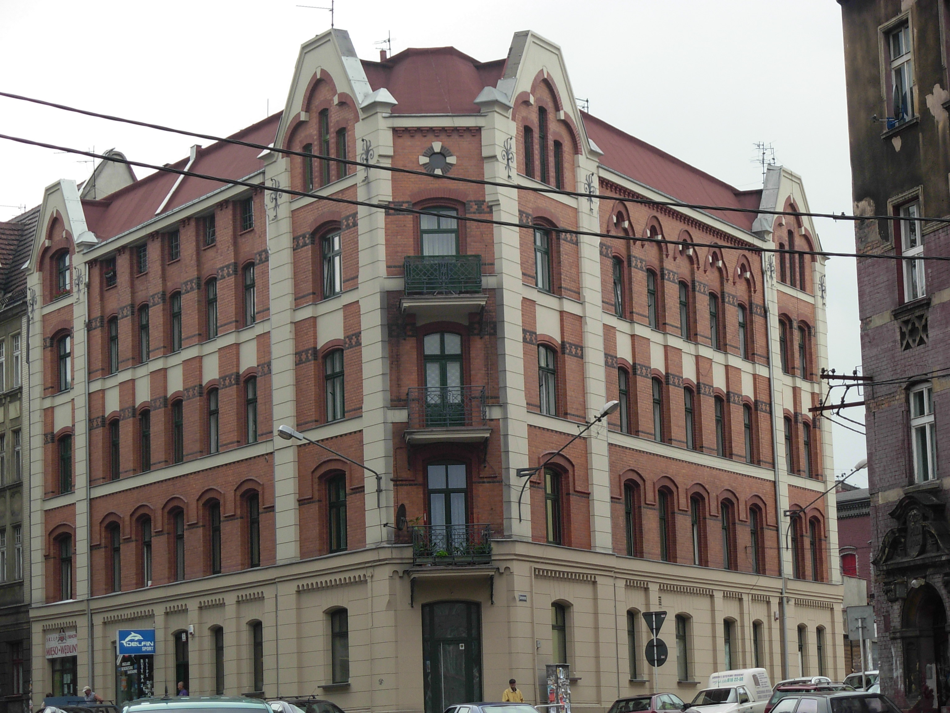 Katowice, Building on Mikołowska Street